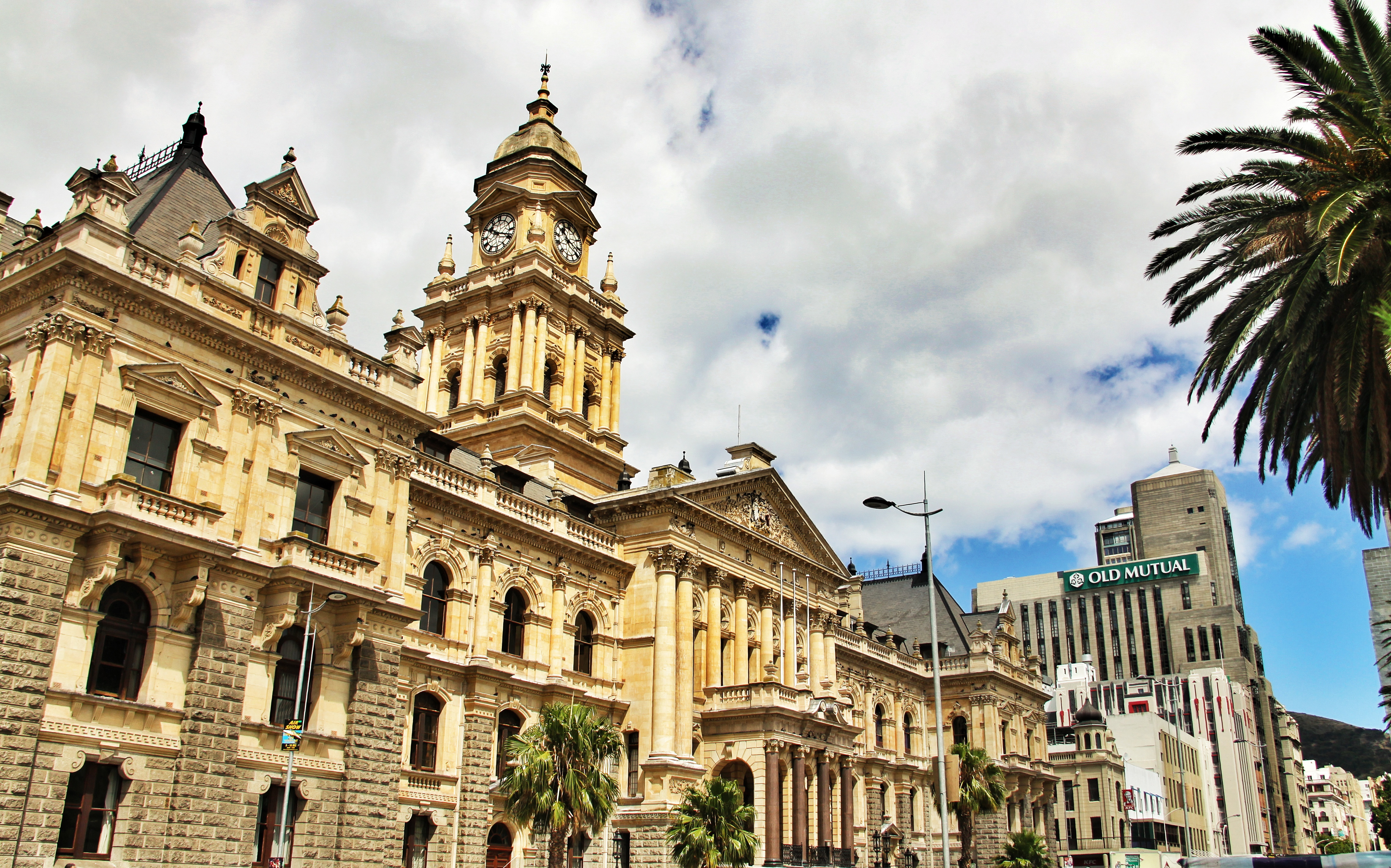 This media shows a South African Protected Site with SAHRA file reference 9/2/018/0115.